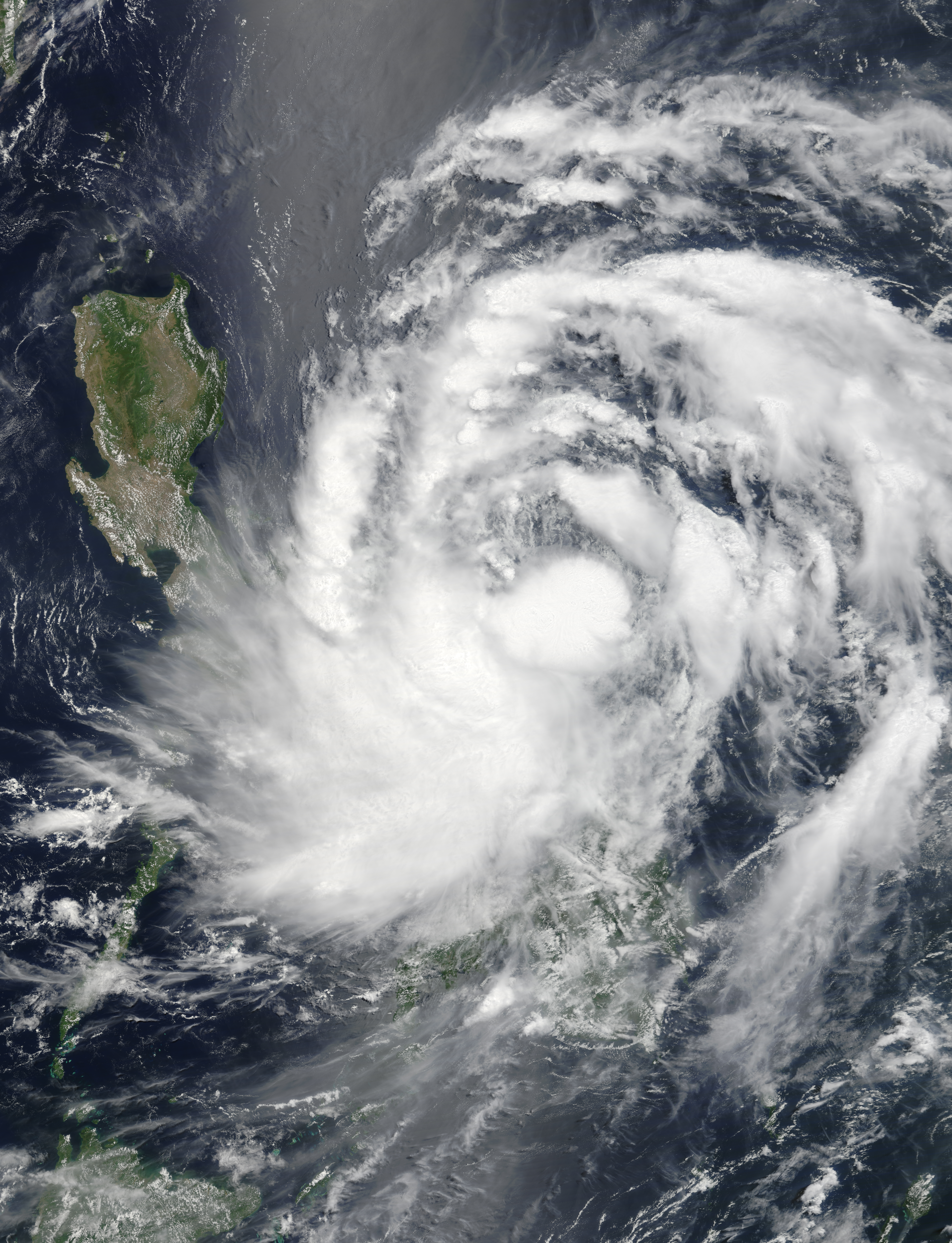 True color Satellite image of Tropical Storm Aere intensifying east of the Philippines on May 7, 2011.